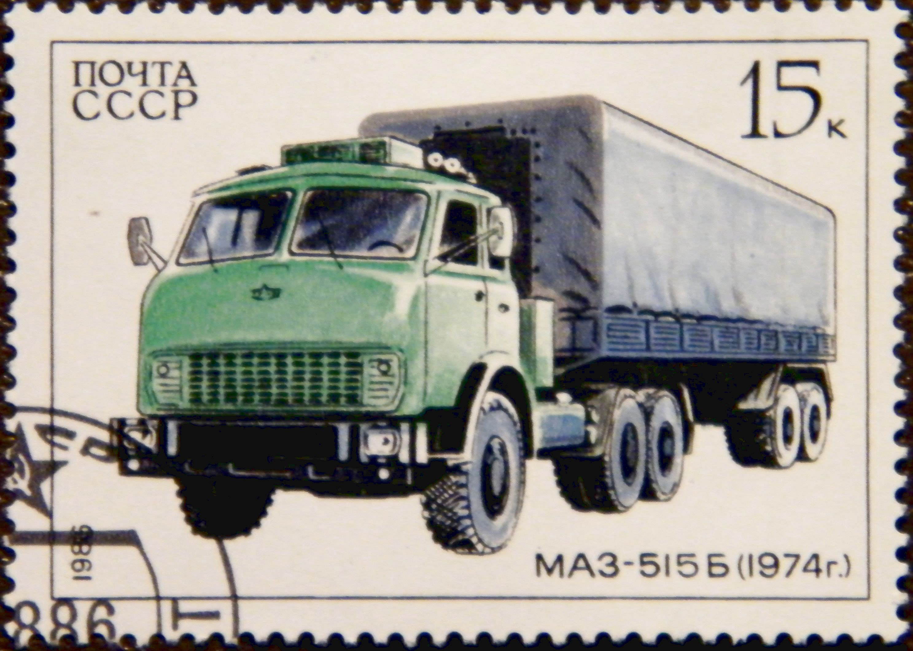 Автомобиль МАЗ-515Б на почтовой марке СССР 1986 года